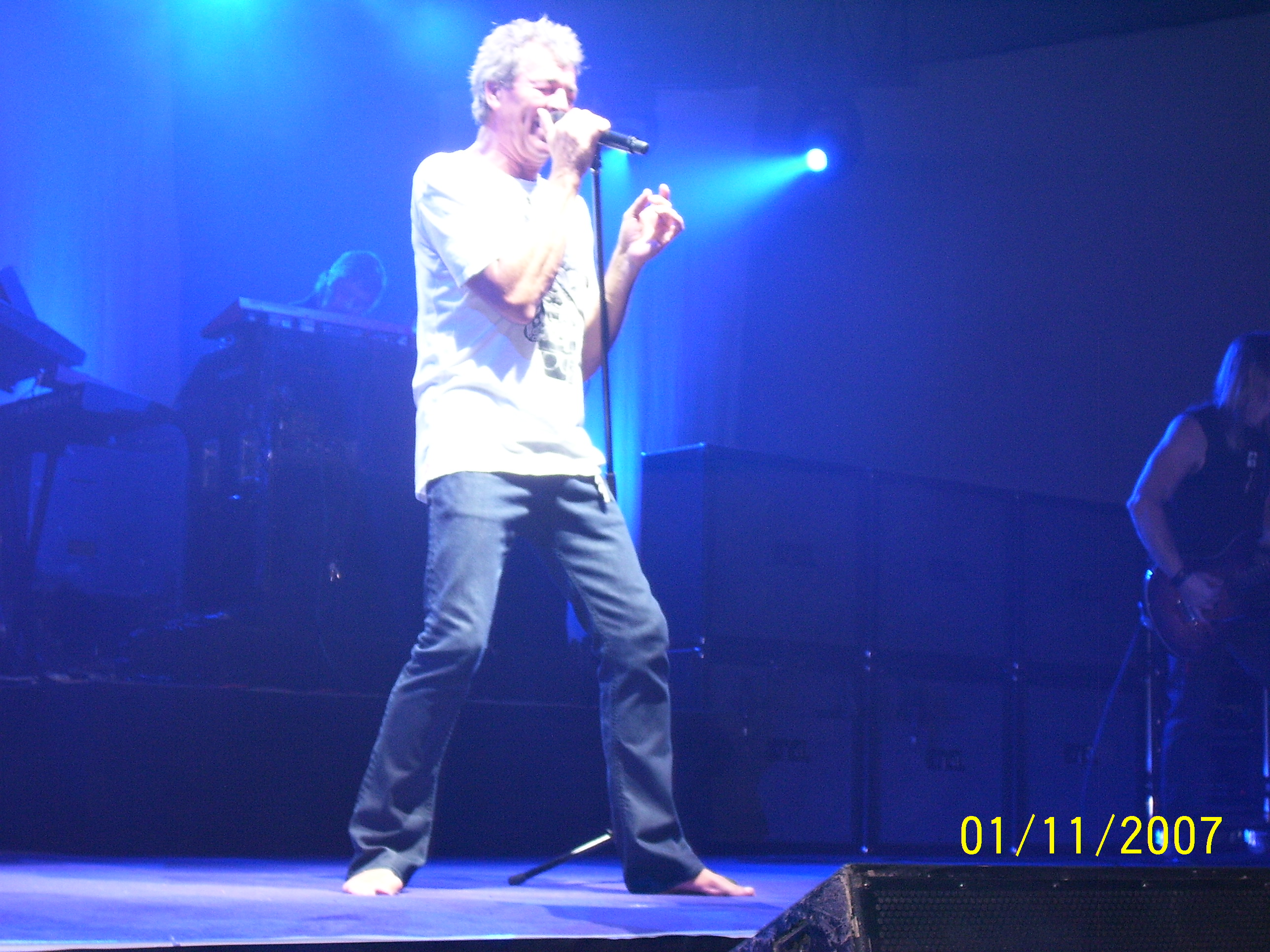 Ian Gillan in 2007, „Festivalna“ hall, Sofia, Bulgaria